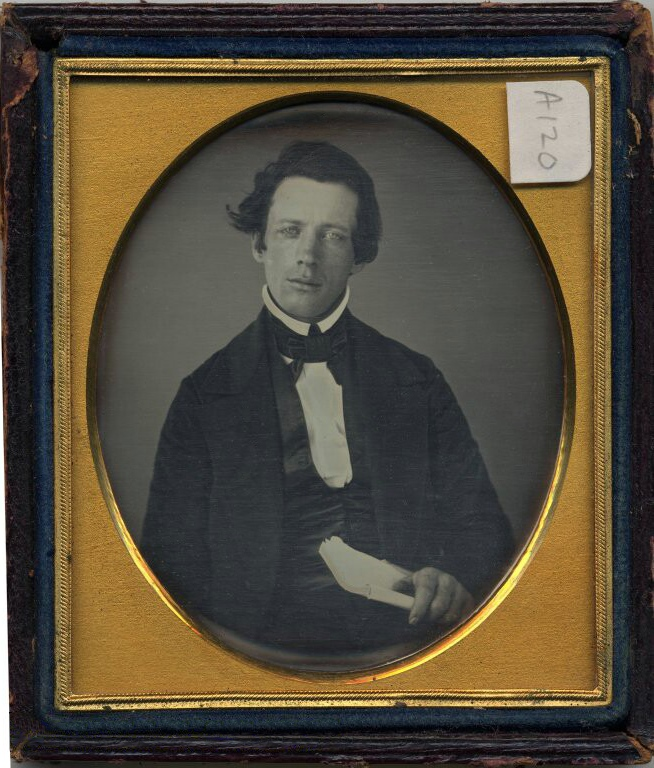 Daguerreotype of Henry Ward Beecher (1813–1887). Courtesy of the Historical Picture Collection, Yale University Manuscripts & Archives Digital Images Database. No known restrictions on publication. Public domain.